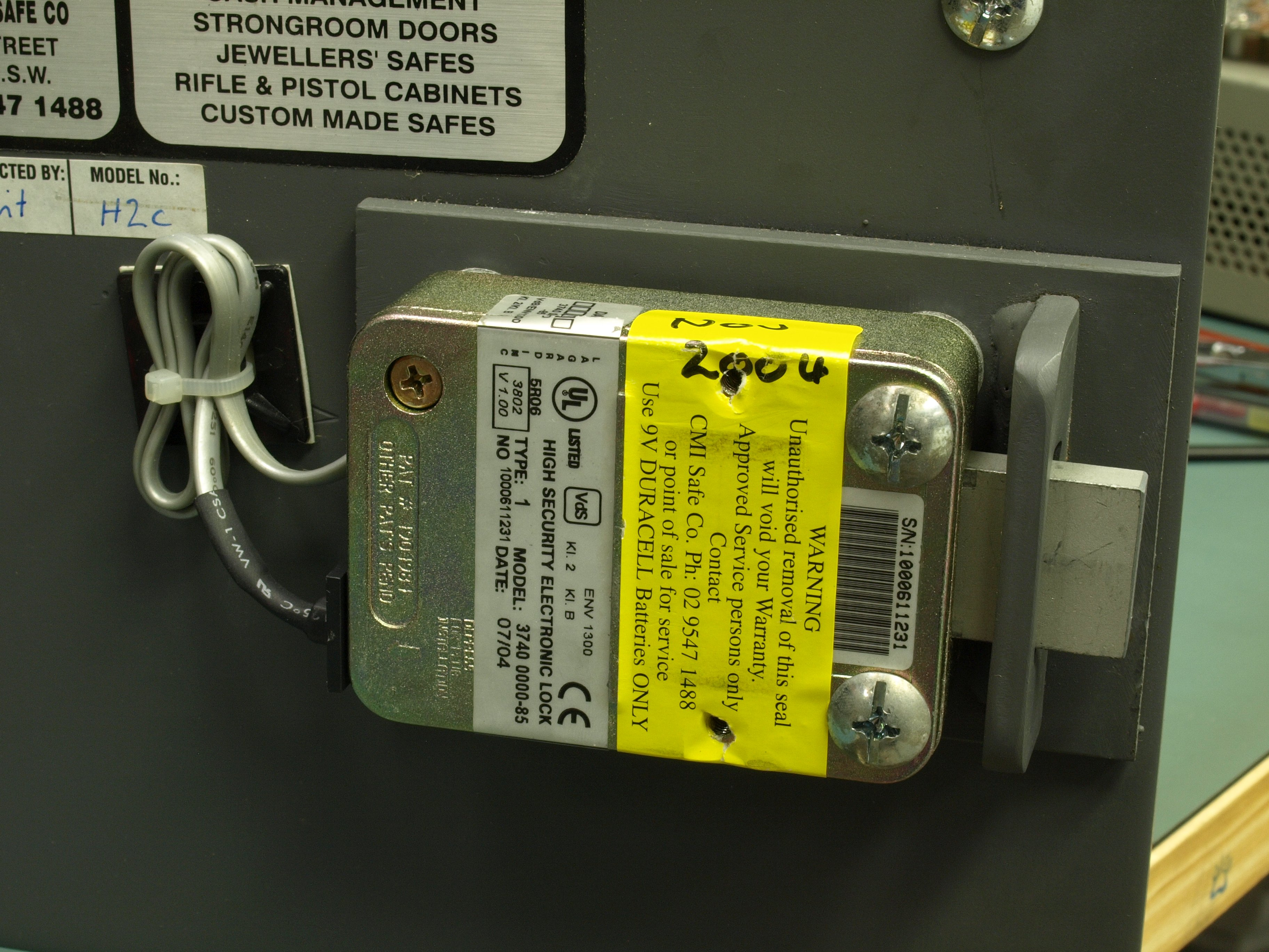 La Gard 3740M Dead Bolt Electronic Digital Lock mounted to a CMI home safe